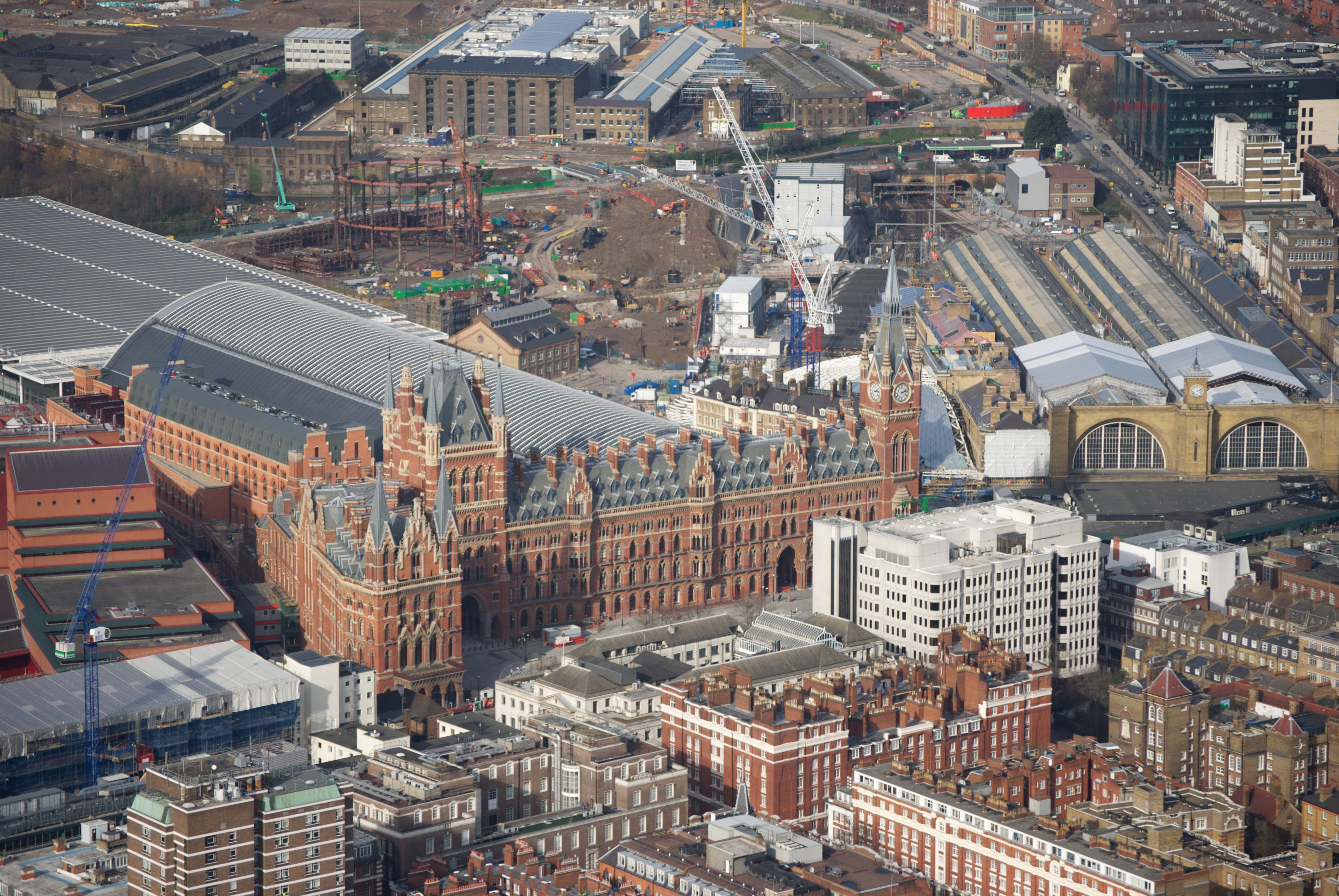 St. Pancras